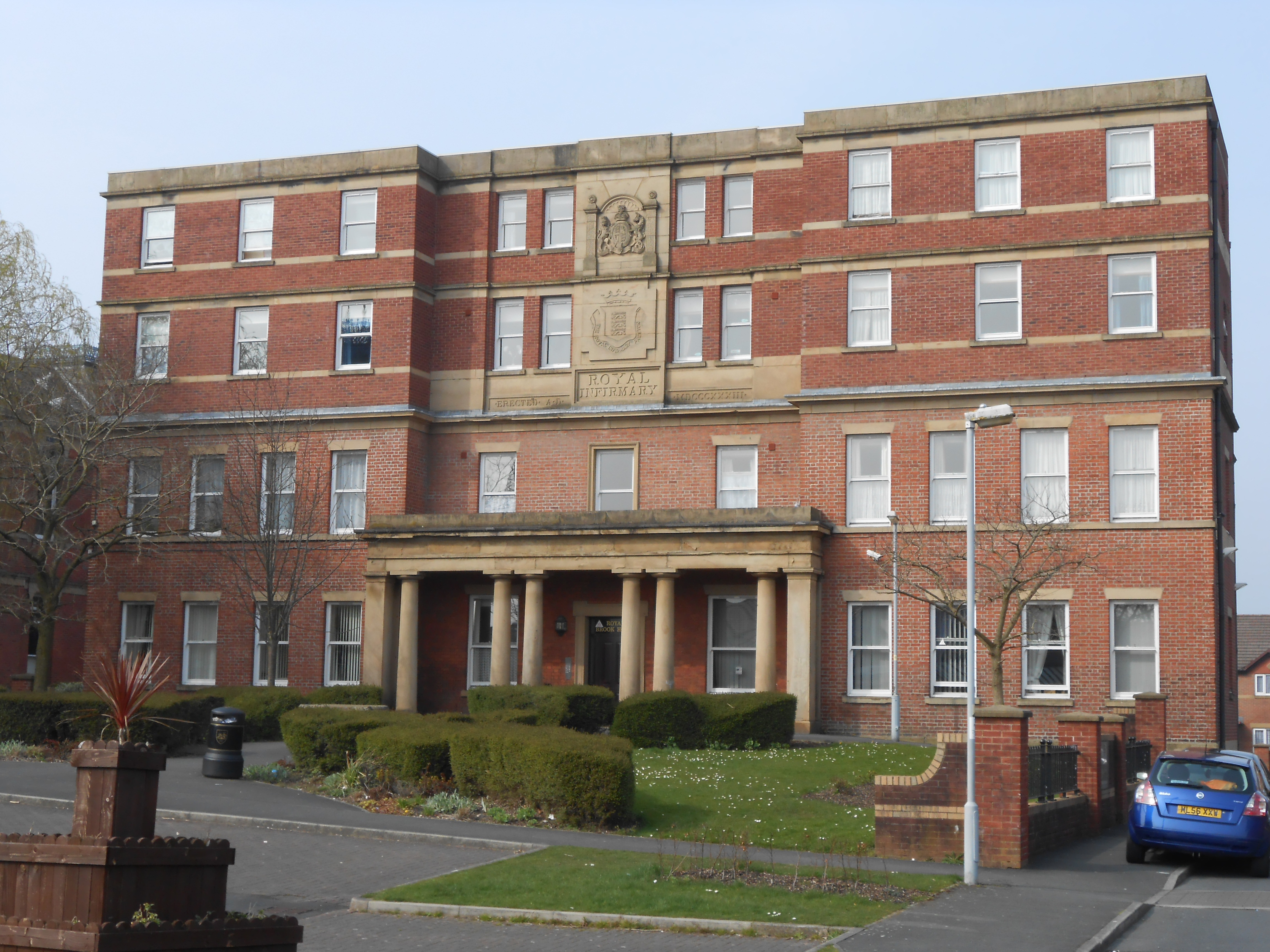 Deepdale Hall, Preston. Formerly the main block of Preston Royal Infirmary.